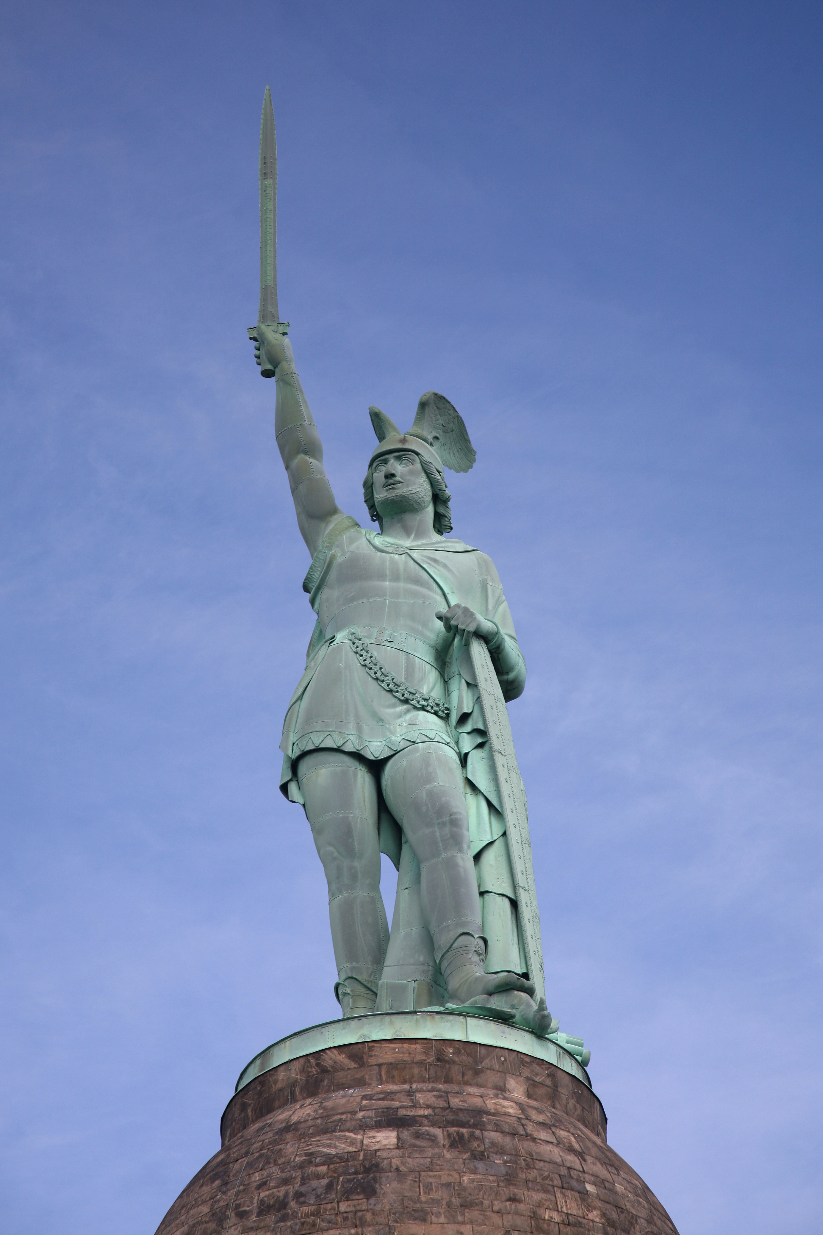 Hermann Memorial near Detmold, Germany